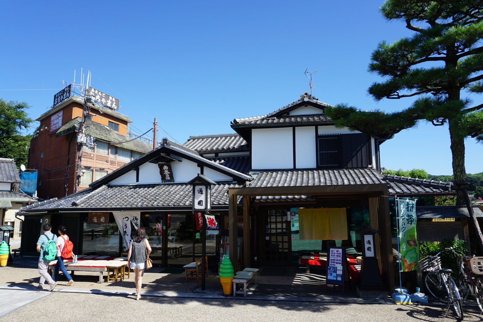 Tsuen Tea House, next to Uji Bridge